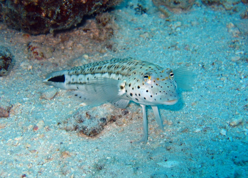 A female Blacktail Grubfish (Parapercis hexophtalma) perched on coral sand. Tracey's Wonderland, Ribbon Reefs, Great Barrier Reef